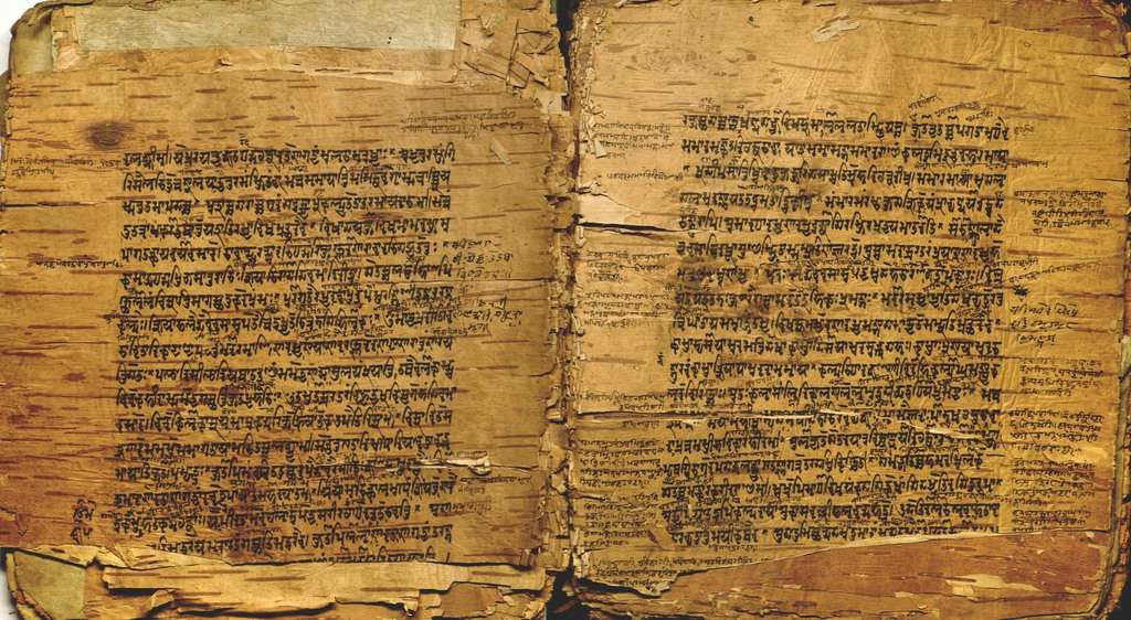 Birch bark manuscript S14 of the Utpattiprakaraṇa Moksopaya. 4788/827 Research & Publ. Dep., Srinagar. More information: Philipps-Universität Marburg: Kollation der Birkenrindenhandschrift S14 des Utpattiprakarana des Moksopaya und Überarbeitung der kritischen Edition.and: Slaje, Walter (2005). "The Mokṣopāya Project (III): Manuscripts from the Delhi and Śrīnagar Collections", in: Jürgen Hanneder (Ed.): The Mokṣopāya, Yogavāsiṣṭha and Related Texts. Aachen 2005 (Geisteskultur Indiens. 7), pp 37-54.